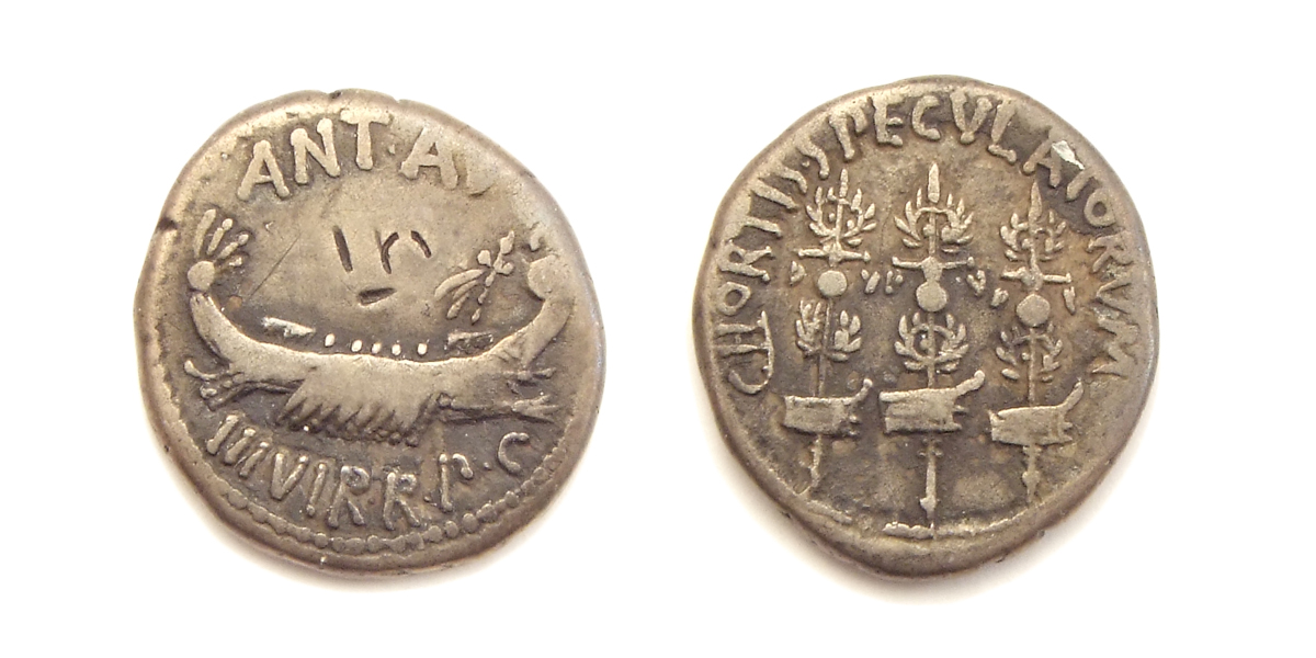 Roman AR Legionary denarius, Marc Antony. Obverse: ANT AVG III VIR R P C, Praetorian galley to the right. Reverse: CHORTIS SPECVLATORVM, three legionary standards.